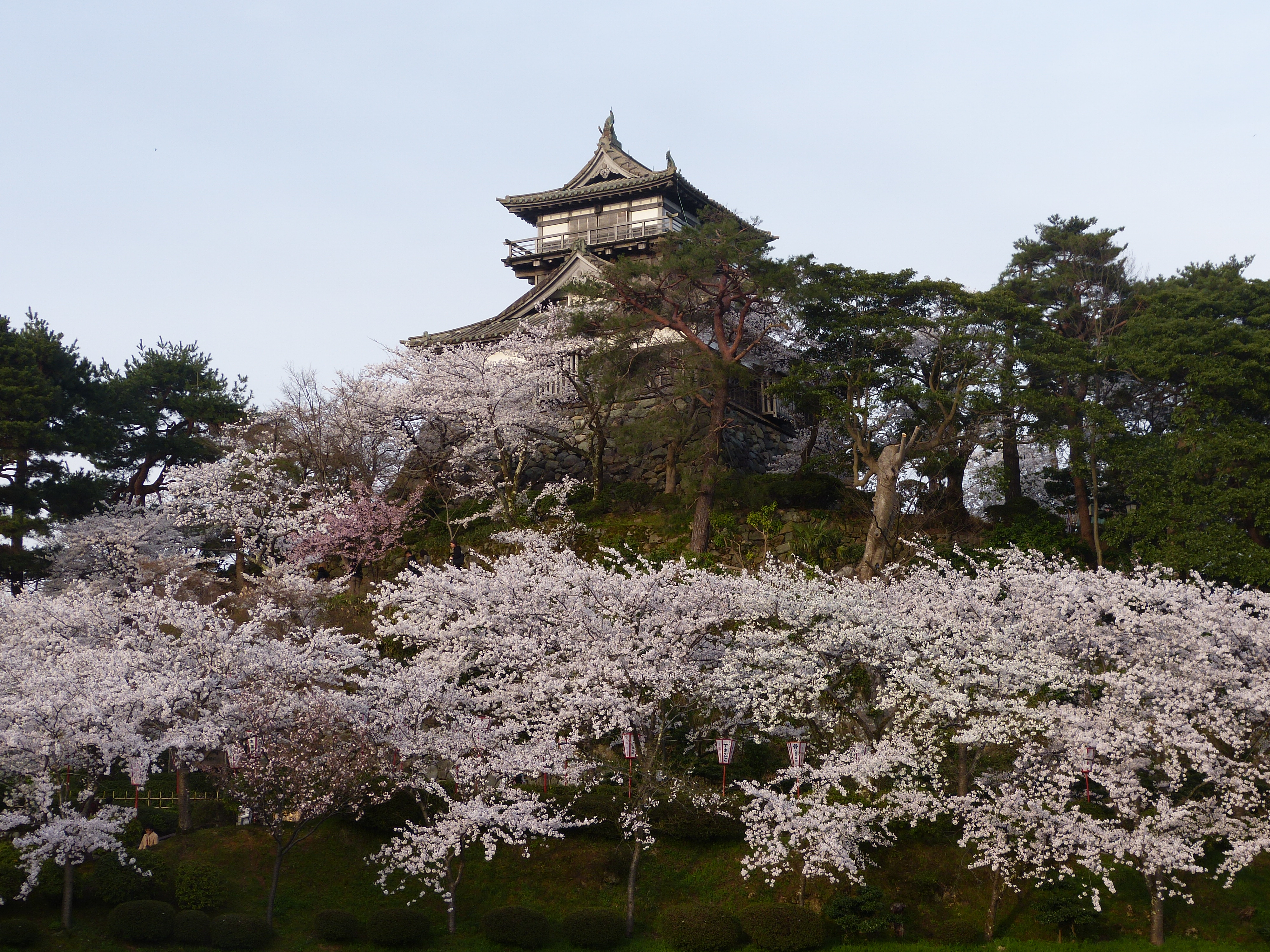 Cherry trees in Maruoka castle (Japan's Top 100 famous place of cherry trees) ,Fukui prefecture,Japan